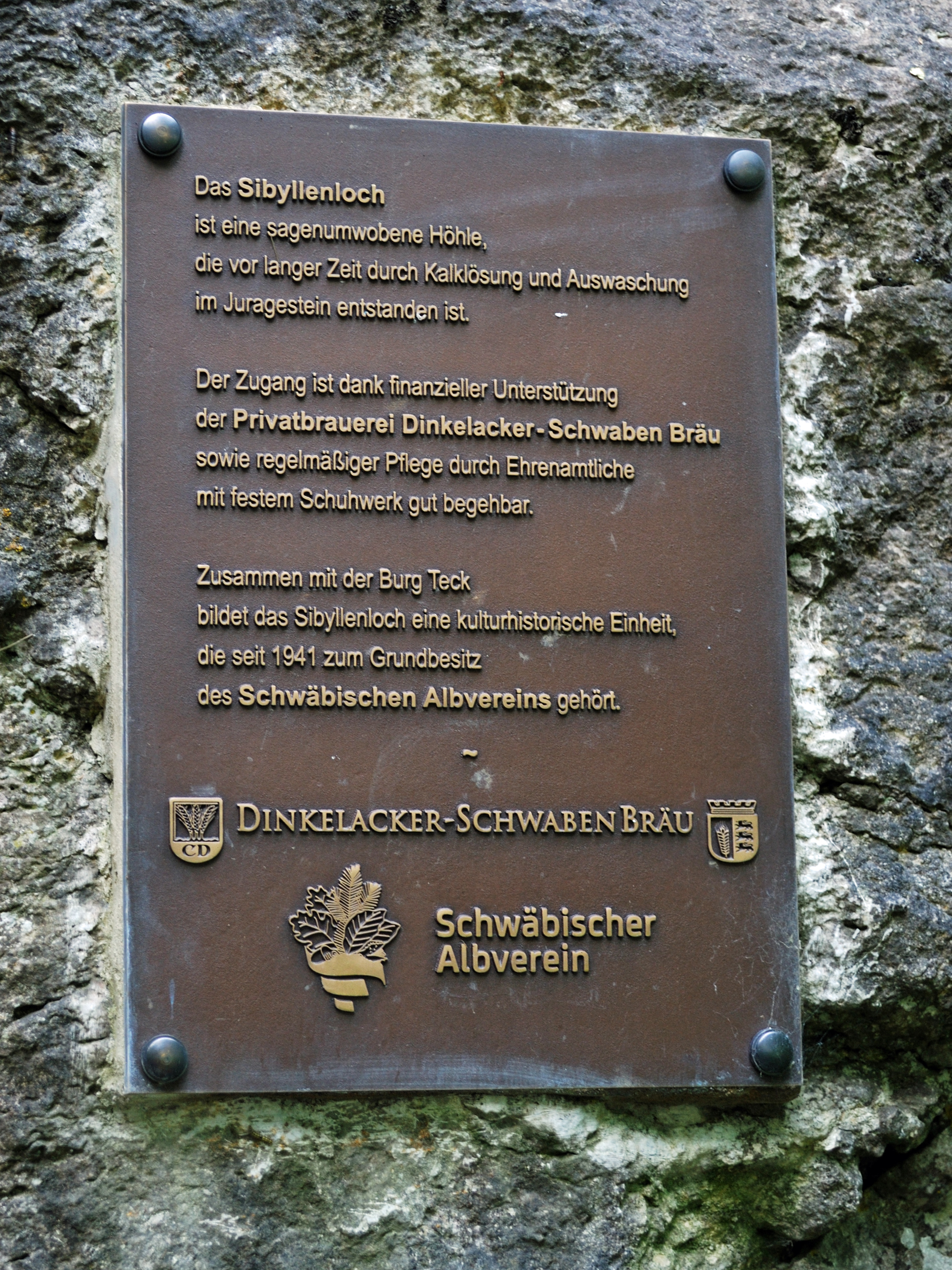 Info board at the Sibyllenloch, a cave in Teckberg in Swabian Jura in the German Federal State Baden-Württemberg.